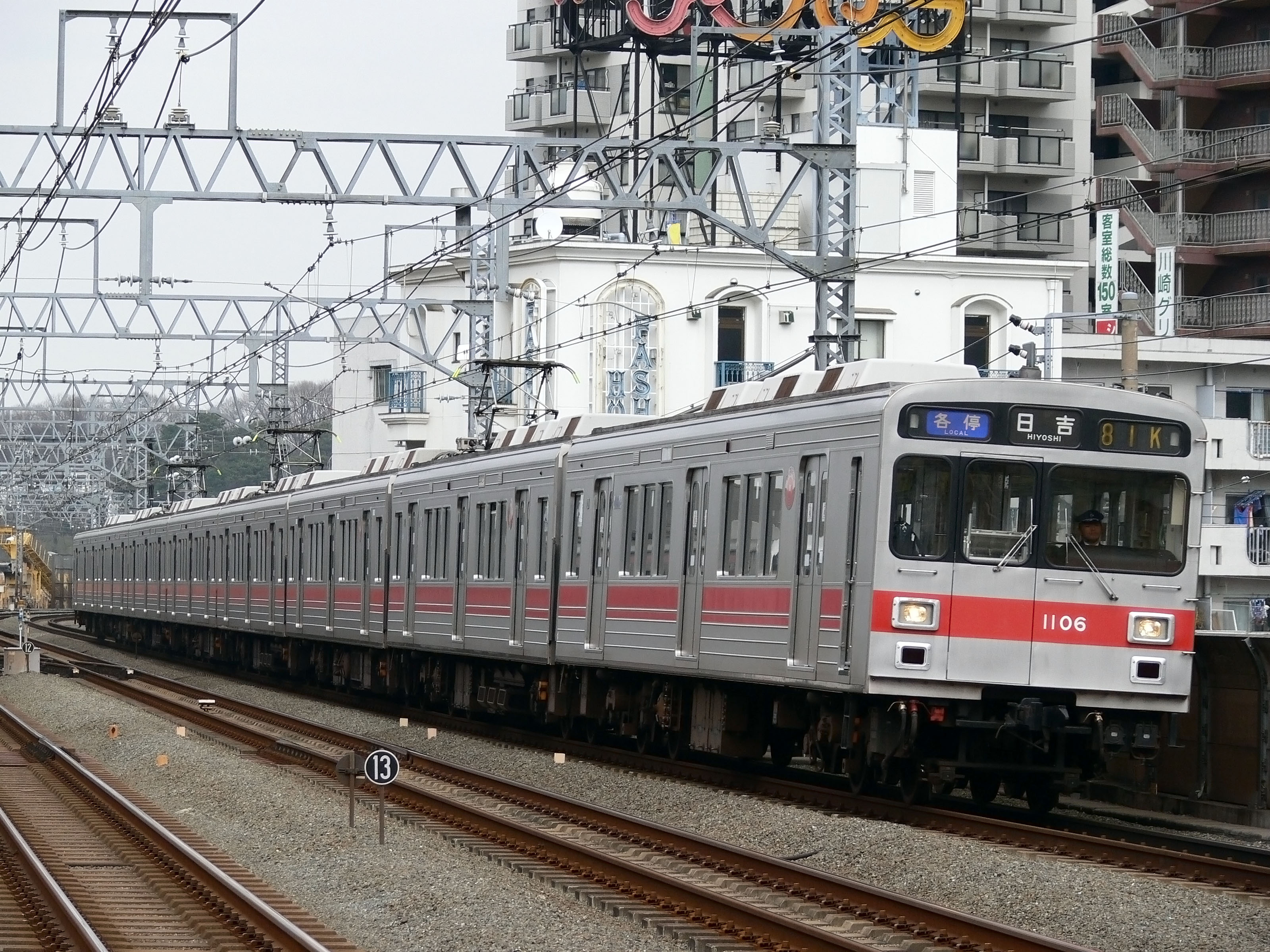 Tokyu 1000 series 8-car EMU set 1106 at Shin-Maruko Station, Kanagawa, Japan